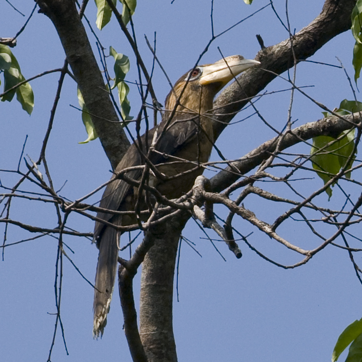 Tickell's Brown Hornbill (Anorrhinus tickelli) in a tree. Kaeng Krachan, Thailand.